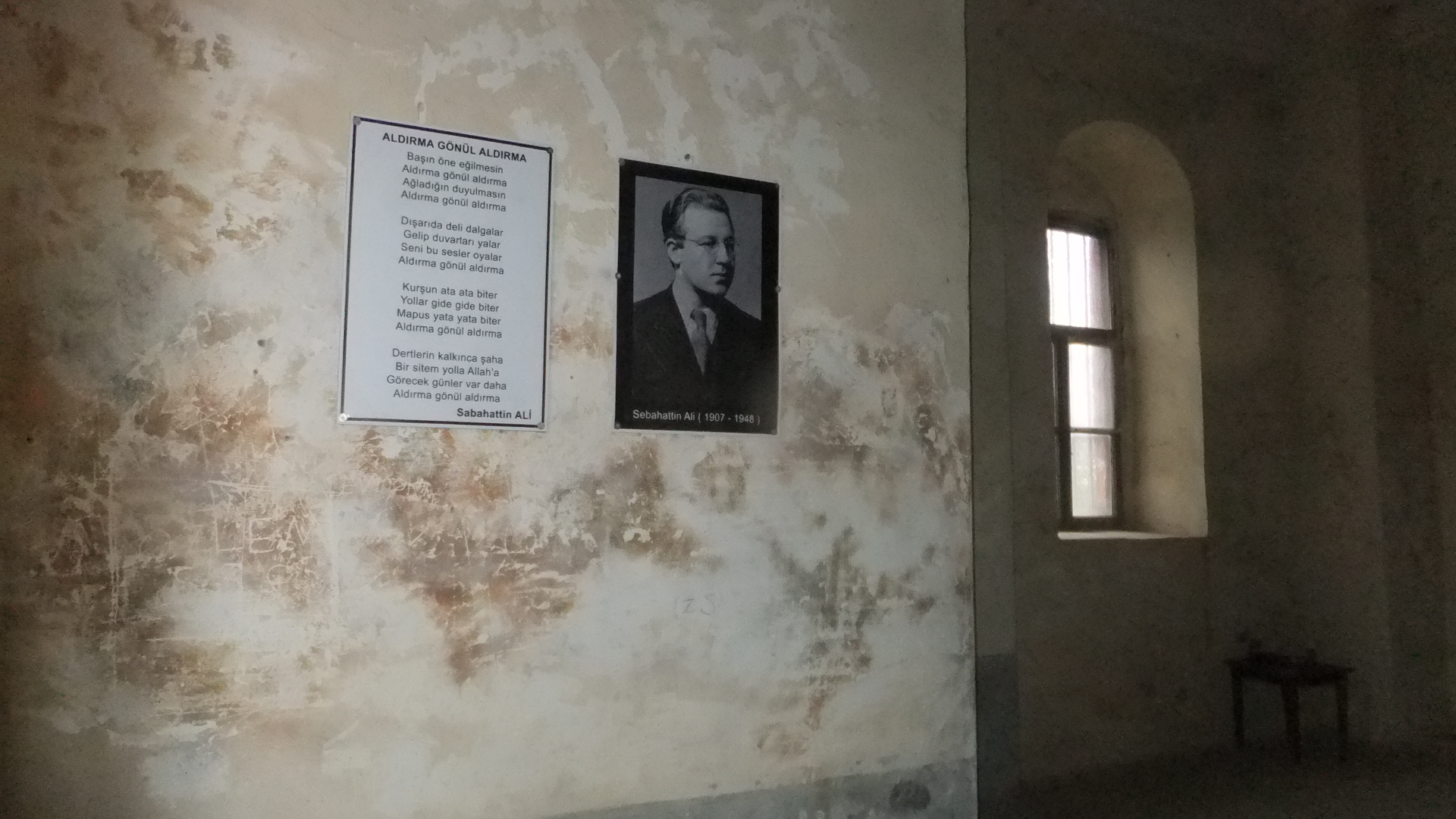 Sinop Fortress Prison, Turkey (currently museum)